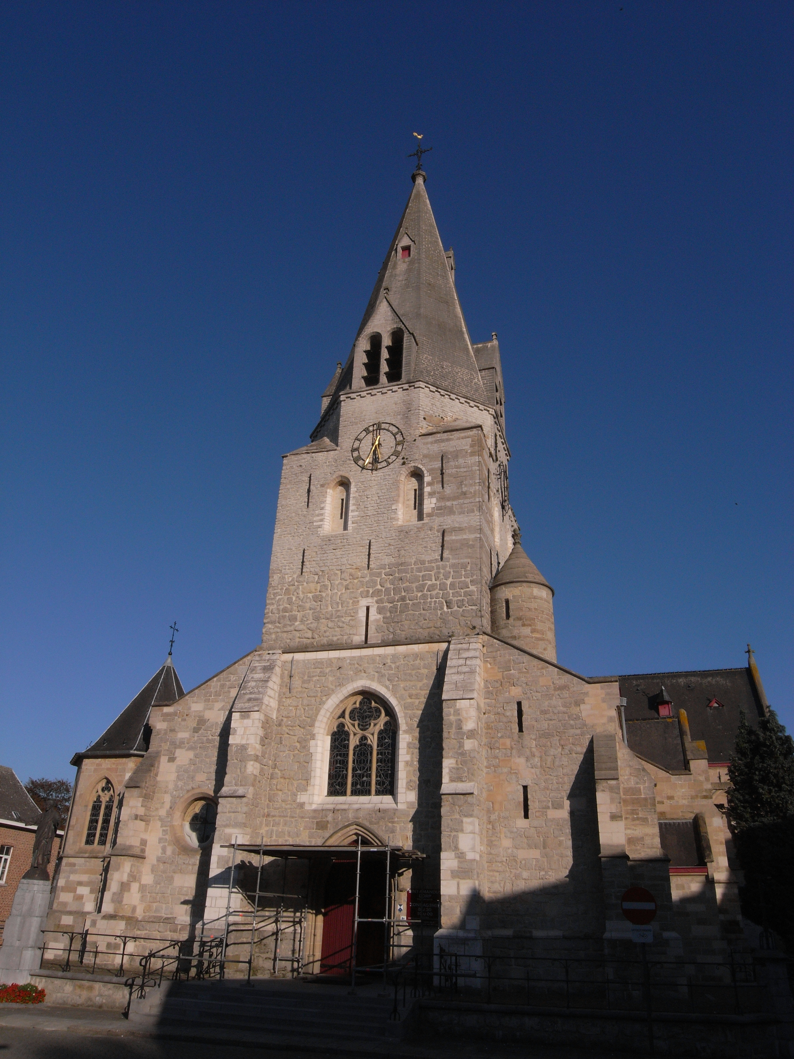 Church Sint-Amandus in Denderleeuw (front and tower)